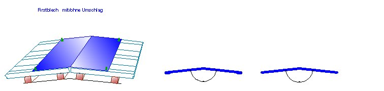 Firstblech